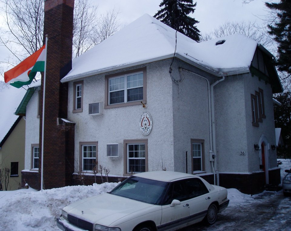 Embassy of Niger in Ottawa, Canada